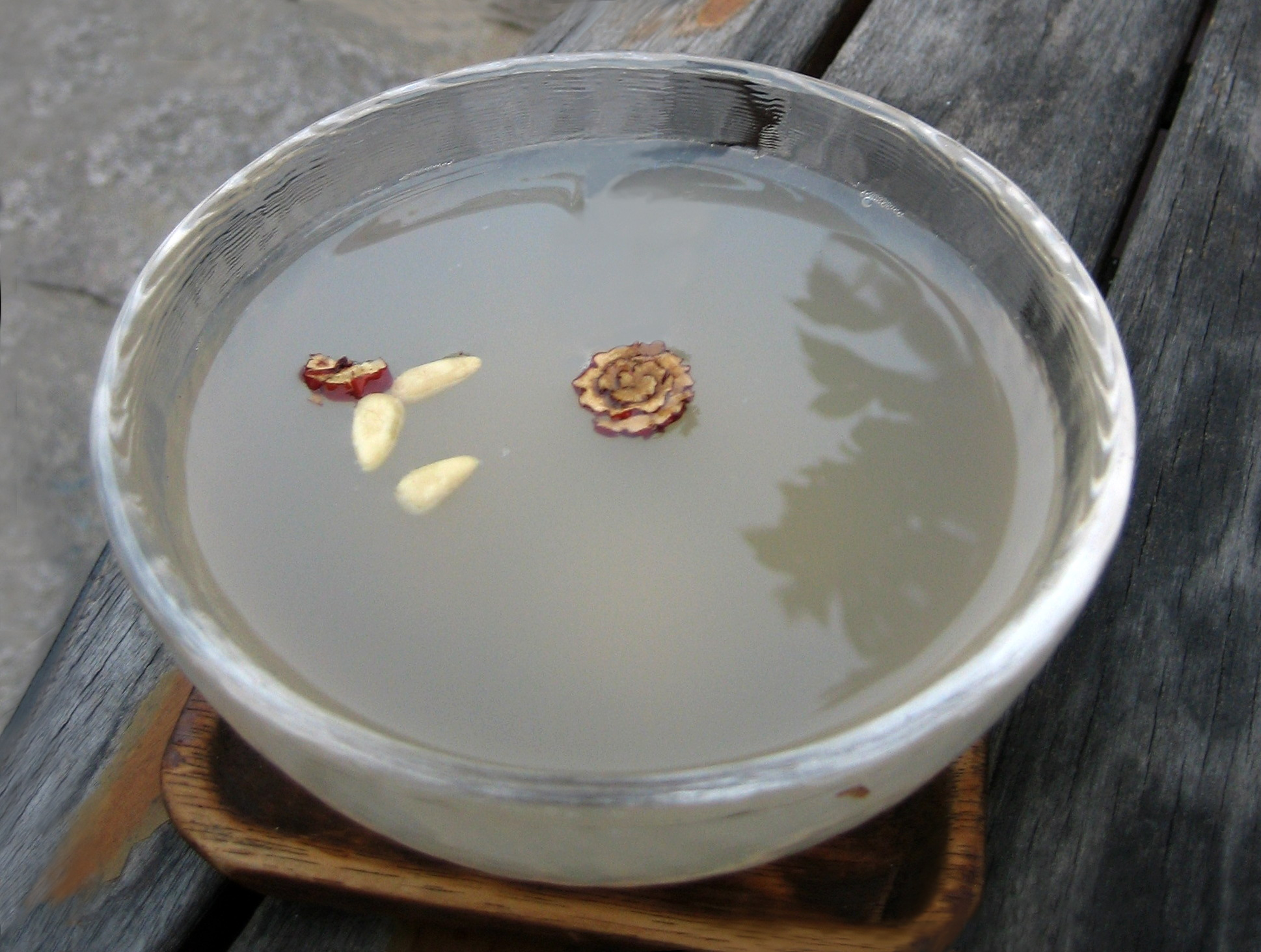 Sikhye (식혜), Korean rice punch.